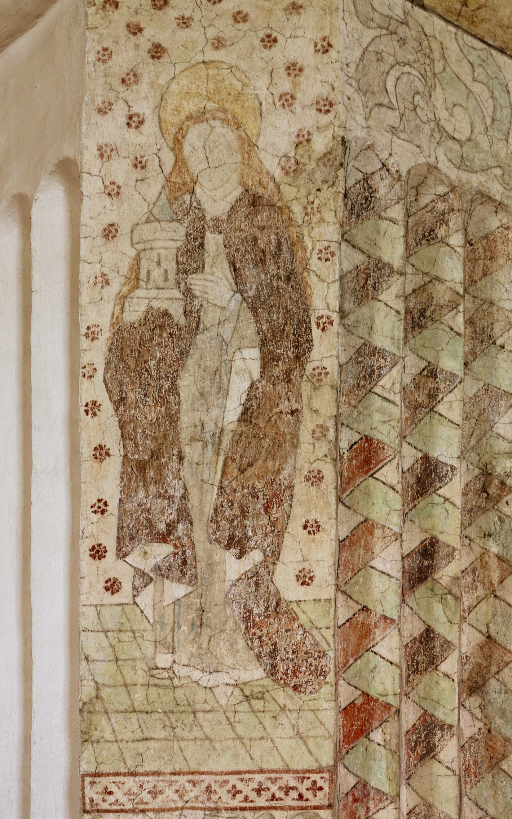 Nederluleå church, Luleå, Sweden. Mural painting